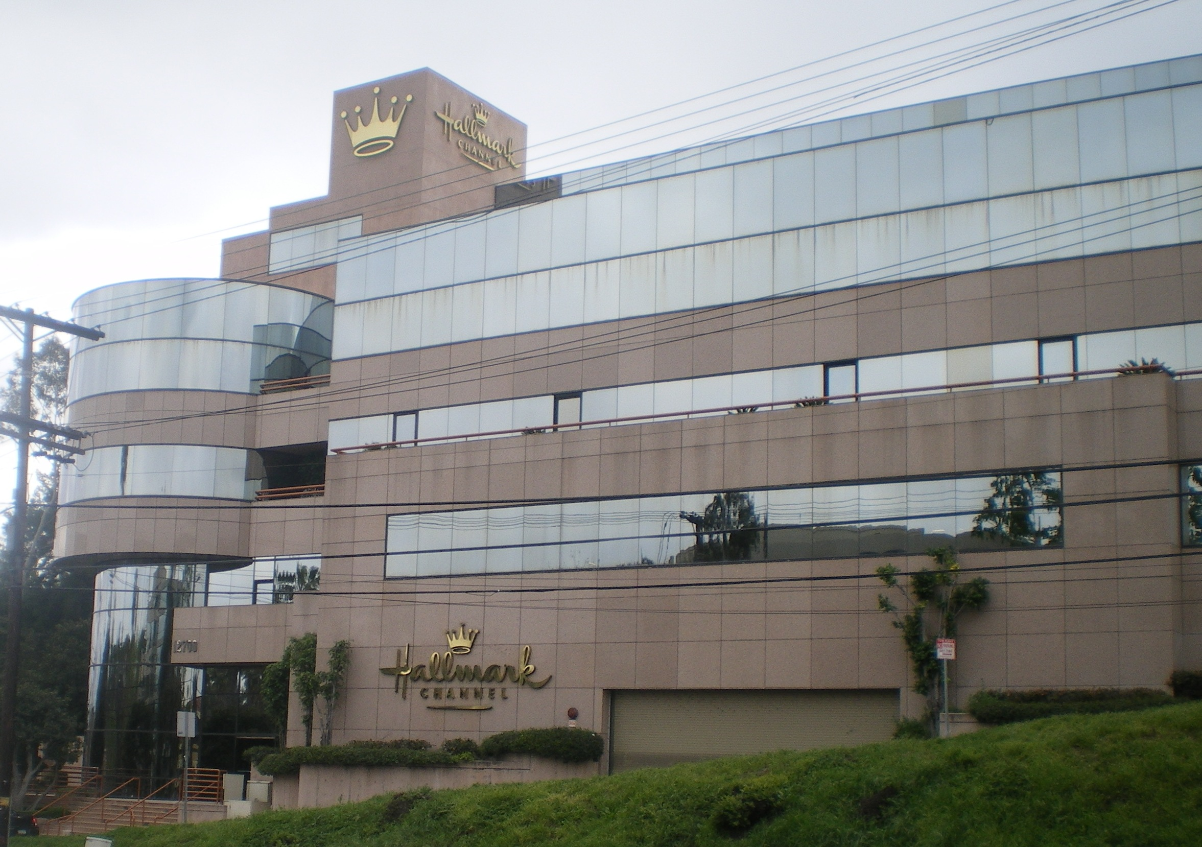 Hallmark Channel Headquarters Ventura Boulevard, Studio, City, California